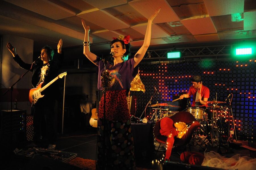 Czech band Toxique on Febiofest Music Festival 2009